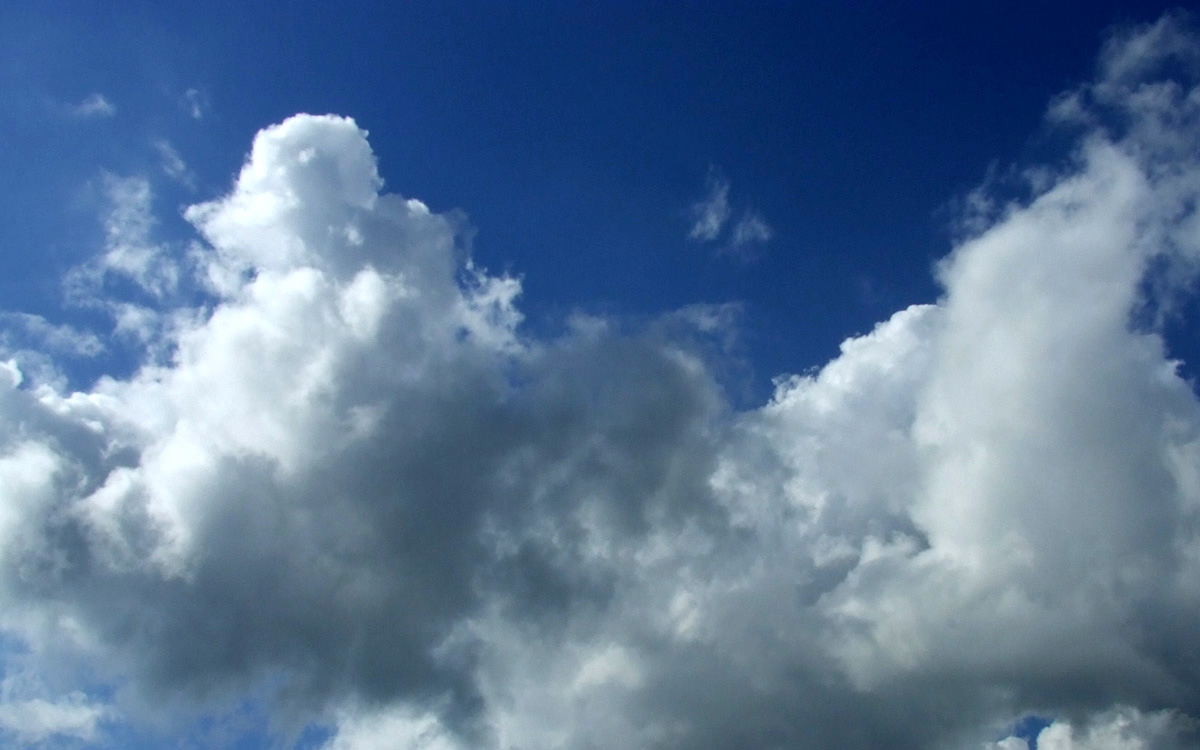 Cloud